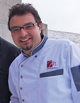 Marco Krainer (right) with champion alpine ski racer Franz Klammer at a culinary sports event in Bad Kleinkirchheim, Austria